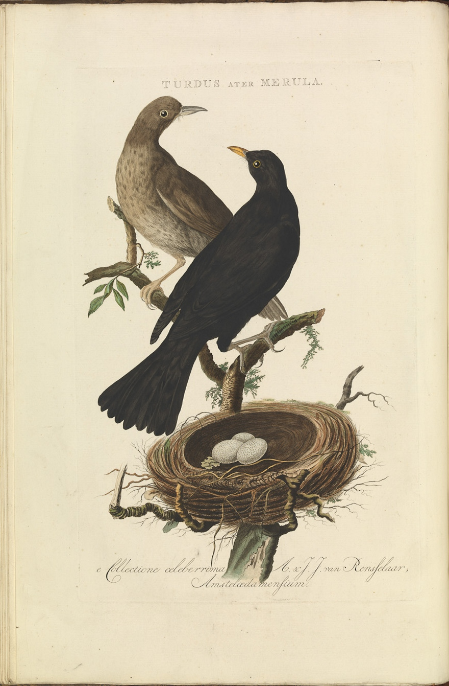 Plate 10 from the Nederlandsche vogelen by Nozeman and Sepp.